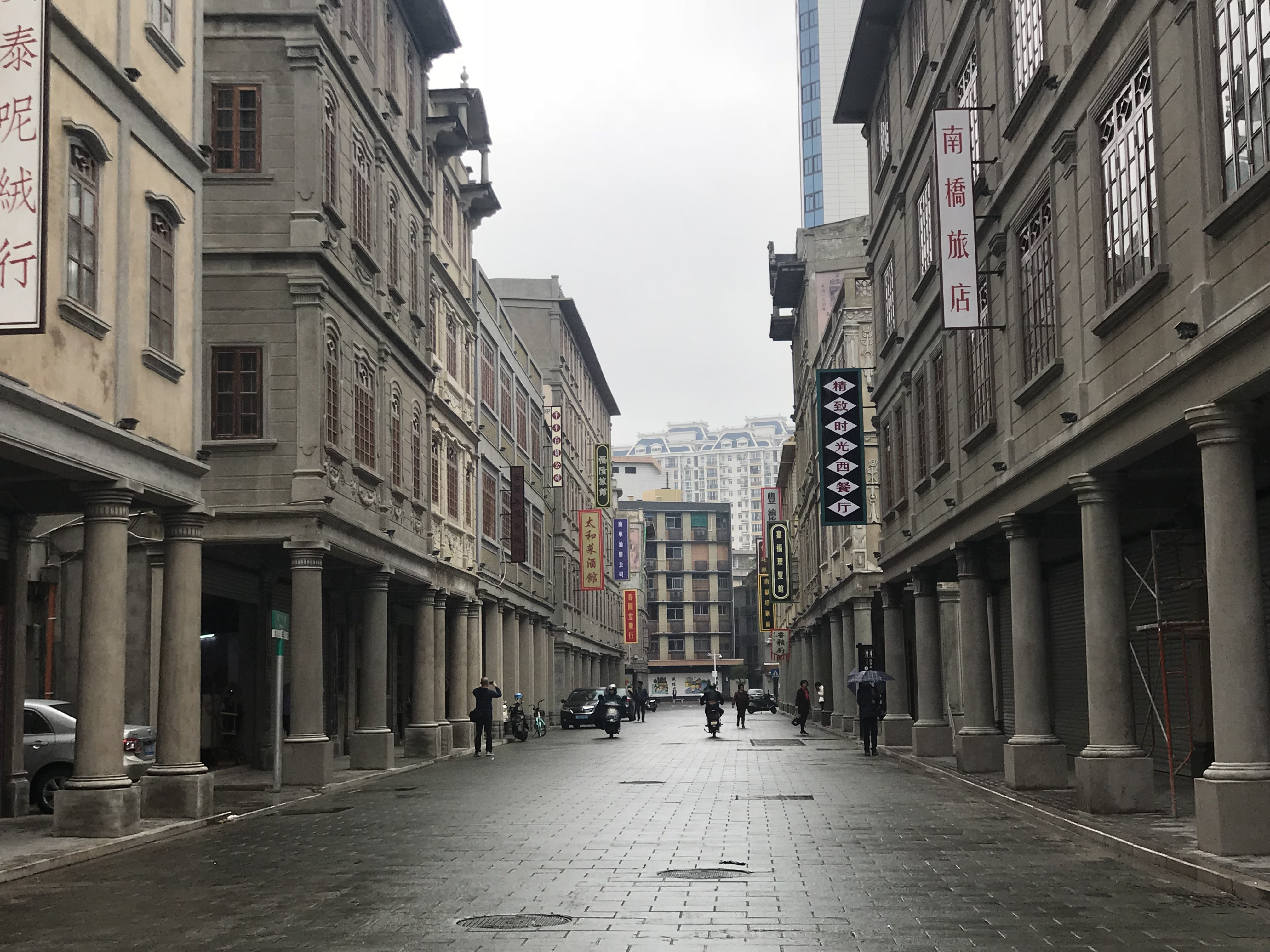 Guoping Road in central Shantou.